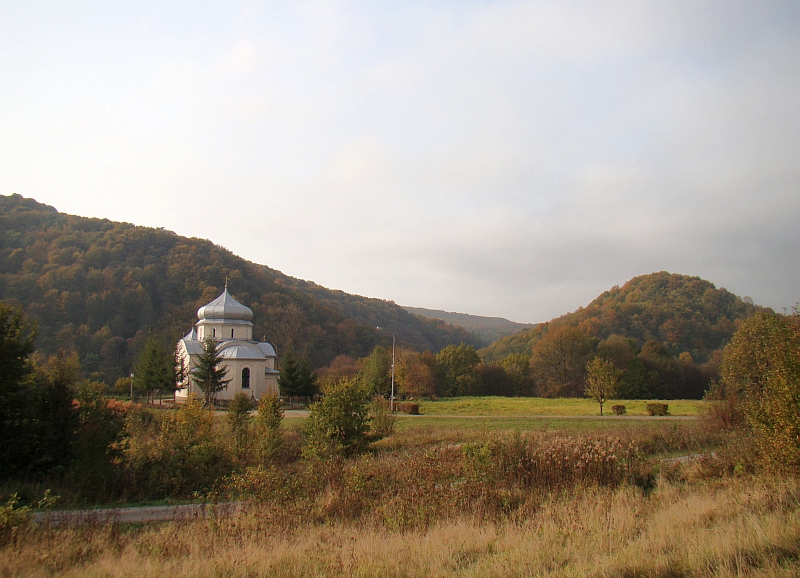 Międzybródź